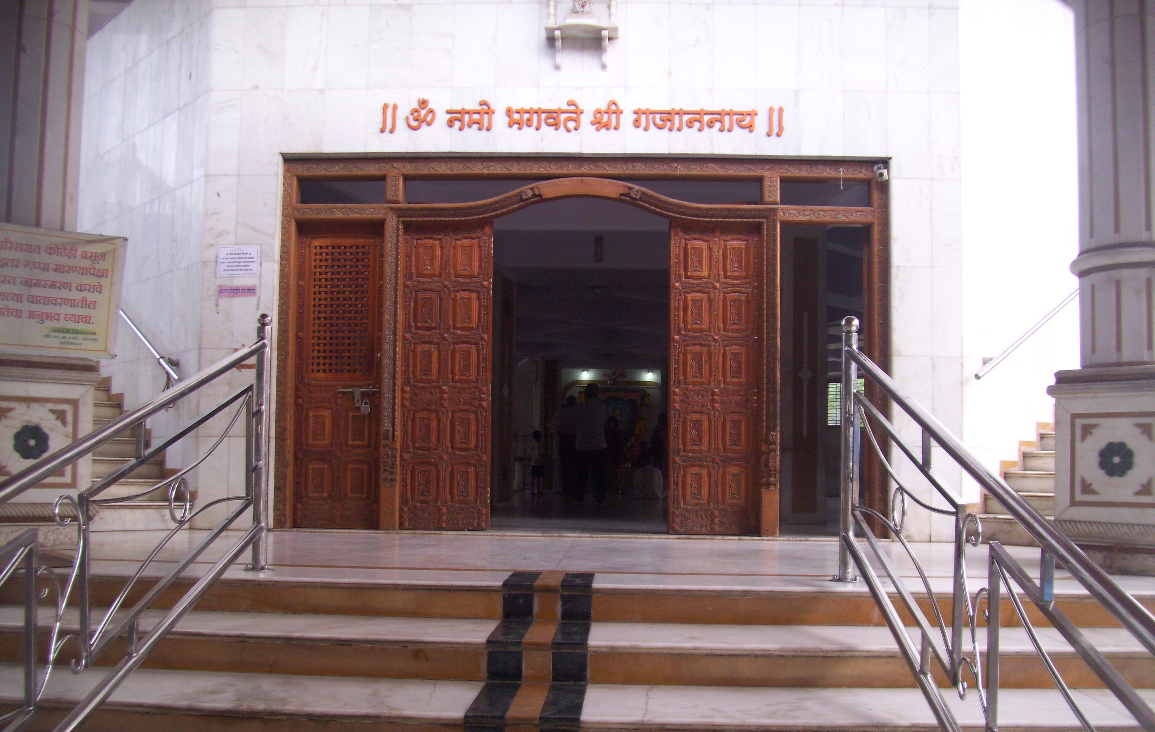 Gajanan maharaj math,parvati darshan,Pune